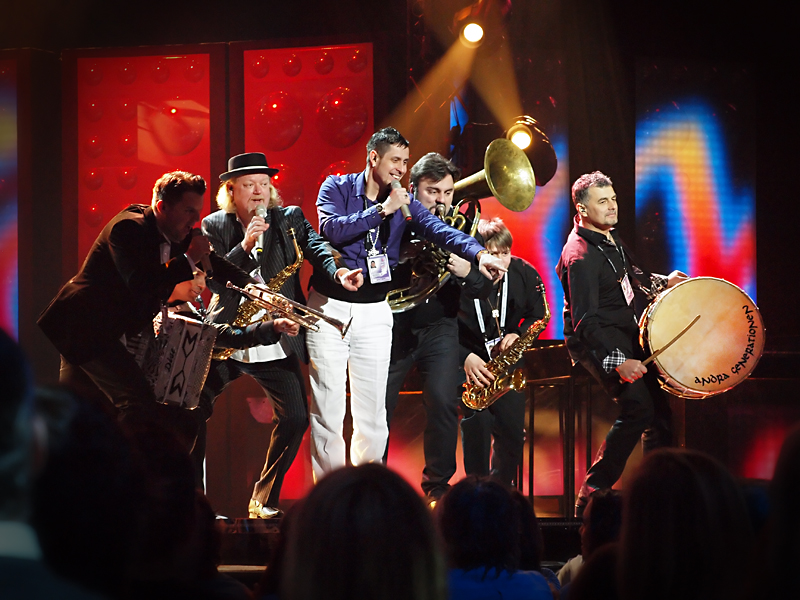 Swedish musicians Dogge Doggelito and Andra Generationen performing in Sandviken during Melodifestivalen 2010.